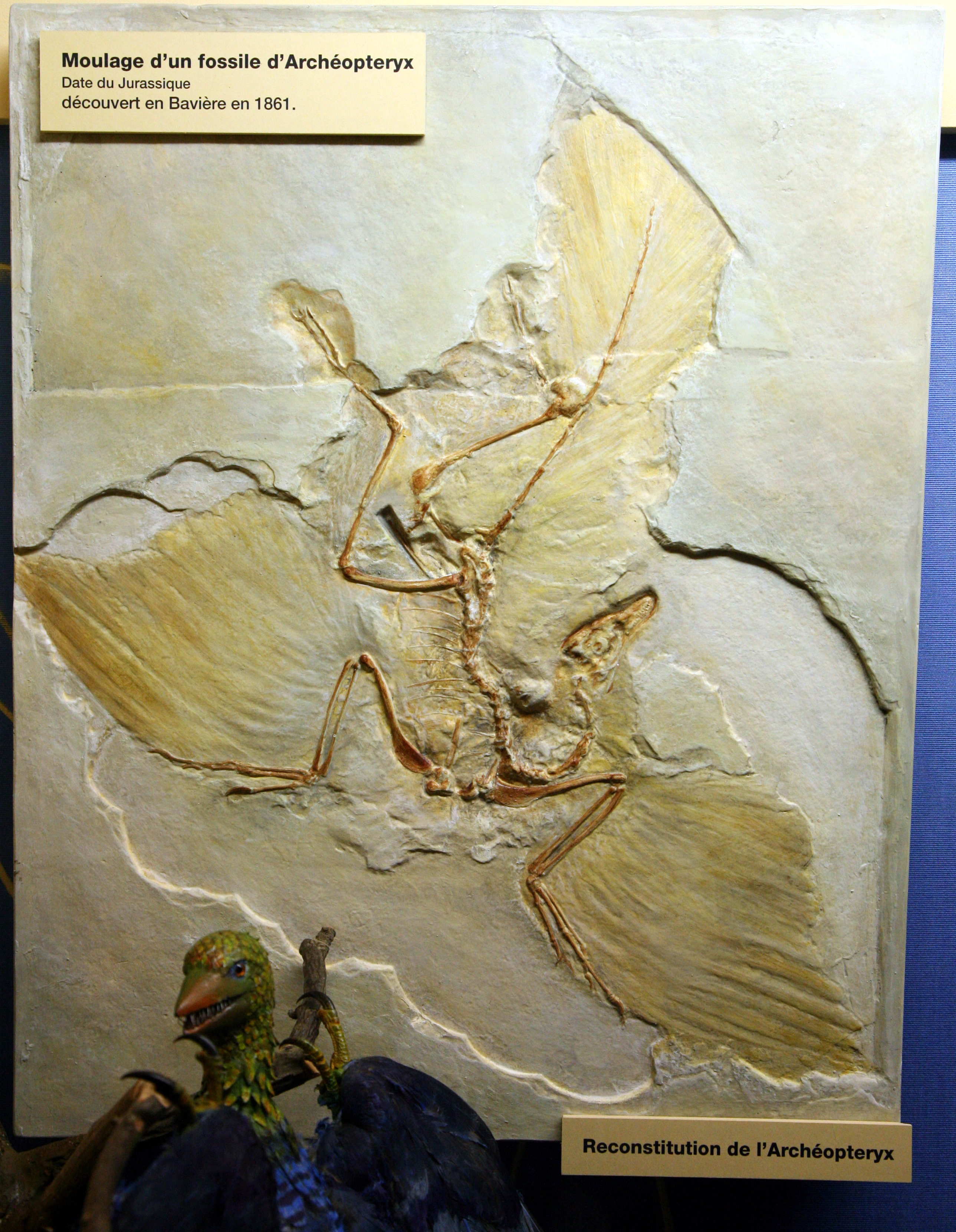 Model of an Archaeopteryx on display at Geneva natural history museum